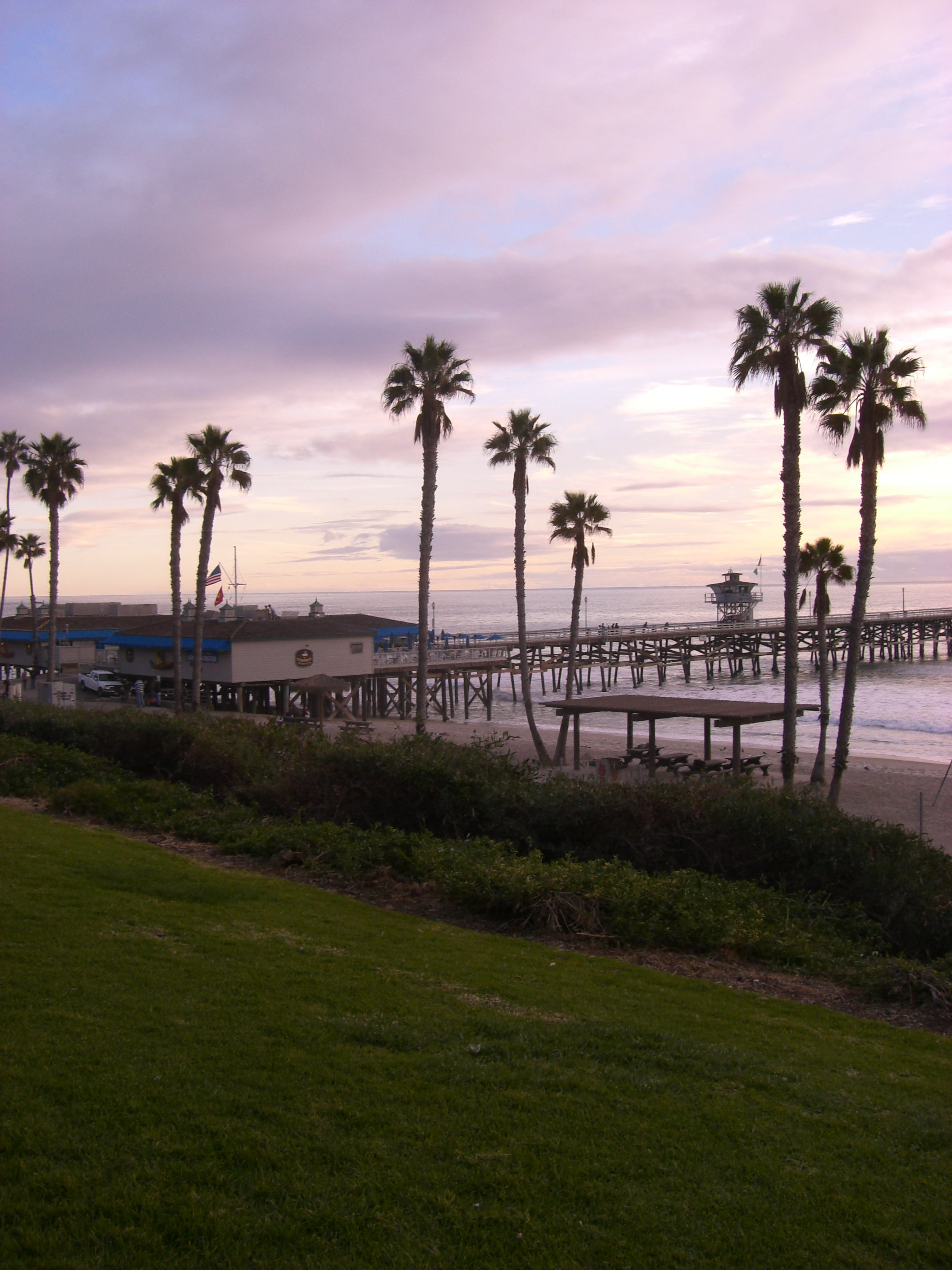 This is a photo of the pier in San Clemente, California, USA.